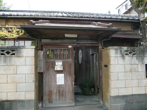 The house of MASAOKA Shiki, Japanese famous poet, Taito-ku.